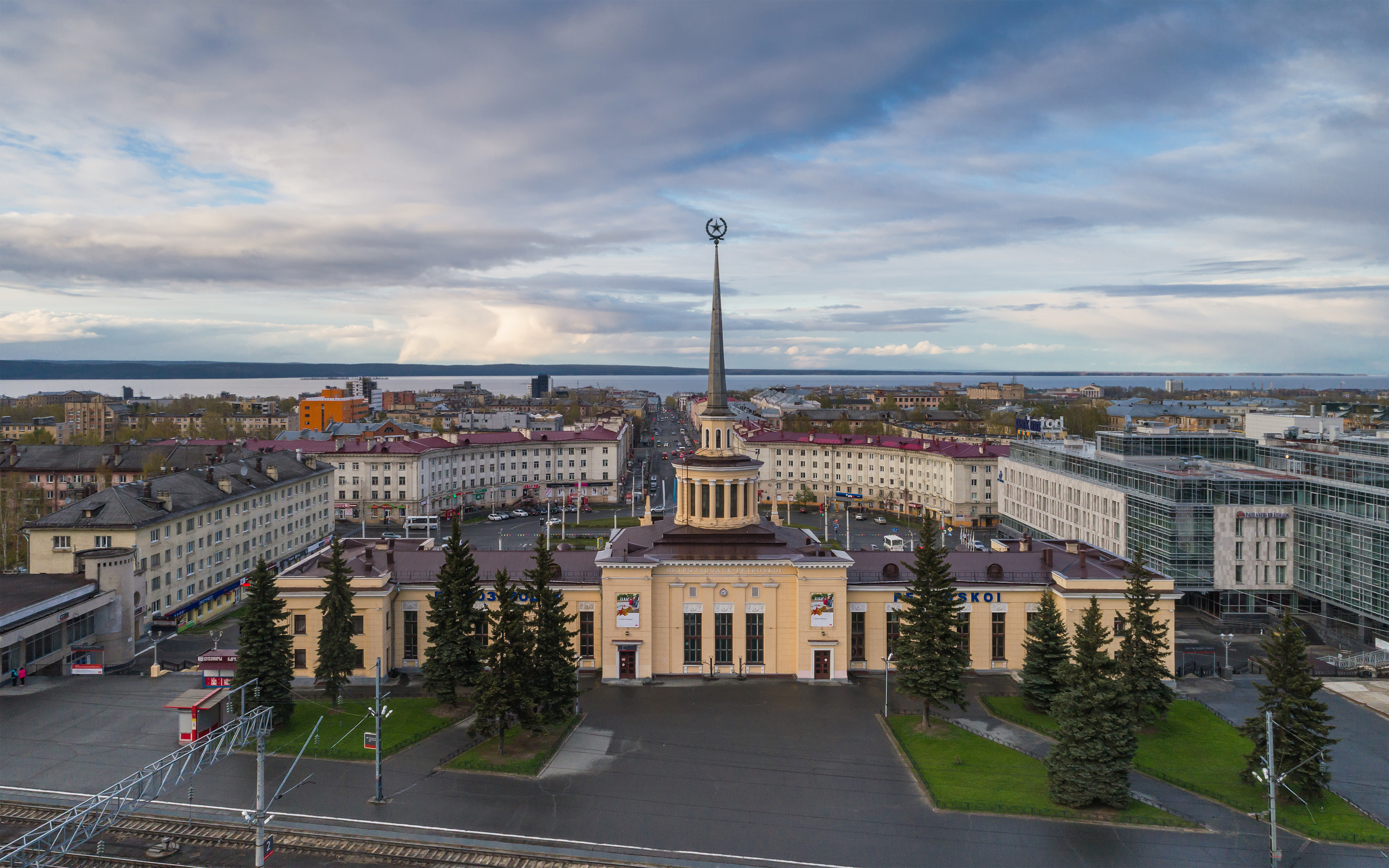 Main railway station (aerial photo) in Petrozavodsk, Republic of Karelia (Russia).